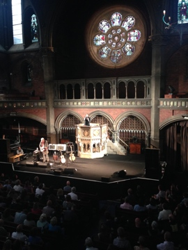 Suzanne Vega at Union Chapel, London June 18th 2015. Improvising by using the pulpit.